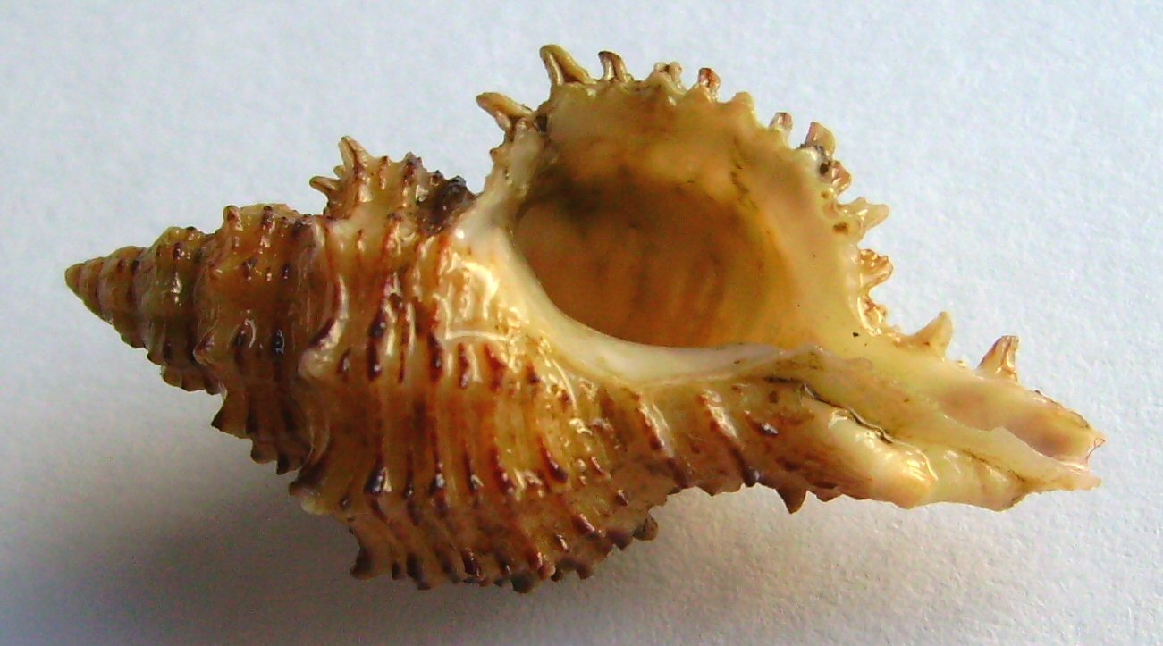 Murexsul octogonus (Quoy & Gaimard, 1833) (octagonal murex) (base view) dredged from the east coast of Northland , New Zealand. This work has been released into the public domain by its author, Graham Bould. This applies worldwide.In some countries this may not be legally possible; if so:Graham Bould grants anyone the right to use this work for any purpose, without any conditions, unless such conditions are required by law.